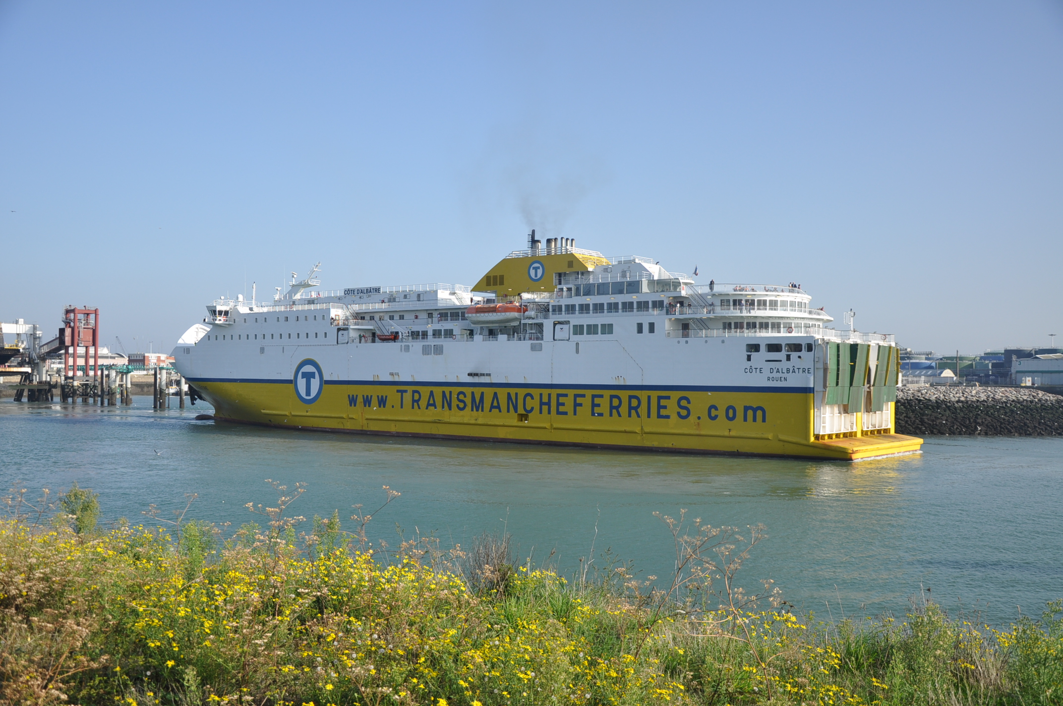 Le Havre (Normandy, France): "transmanche" (=crossing the channel) ferry Côte d'albatre.